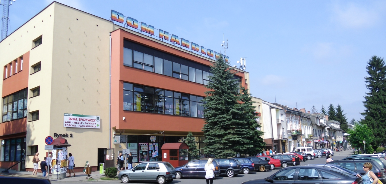 Lesko is a town of in Subcarpathian Voivodeship. Poland.